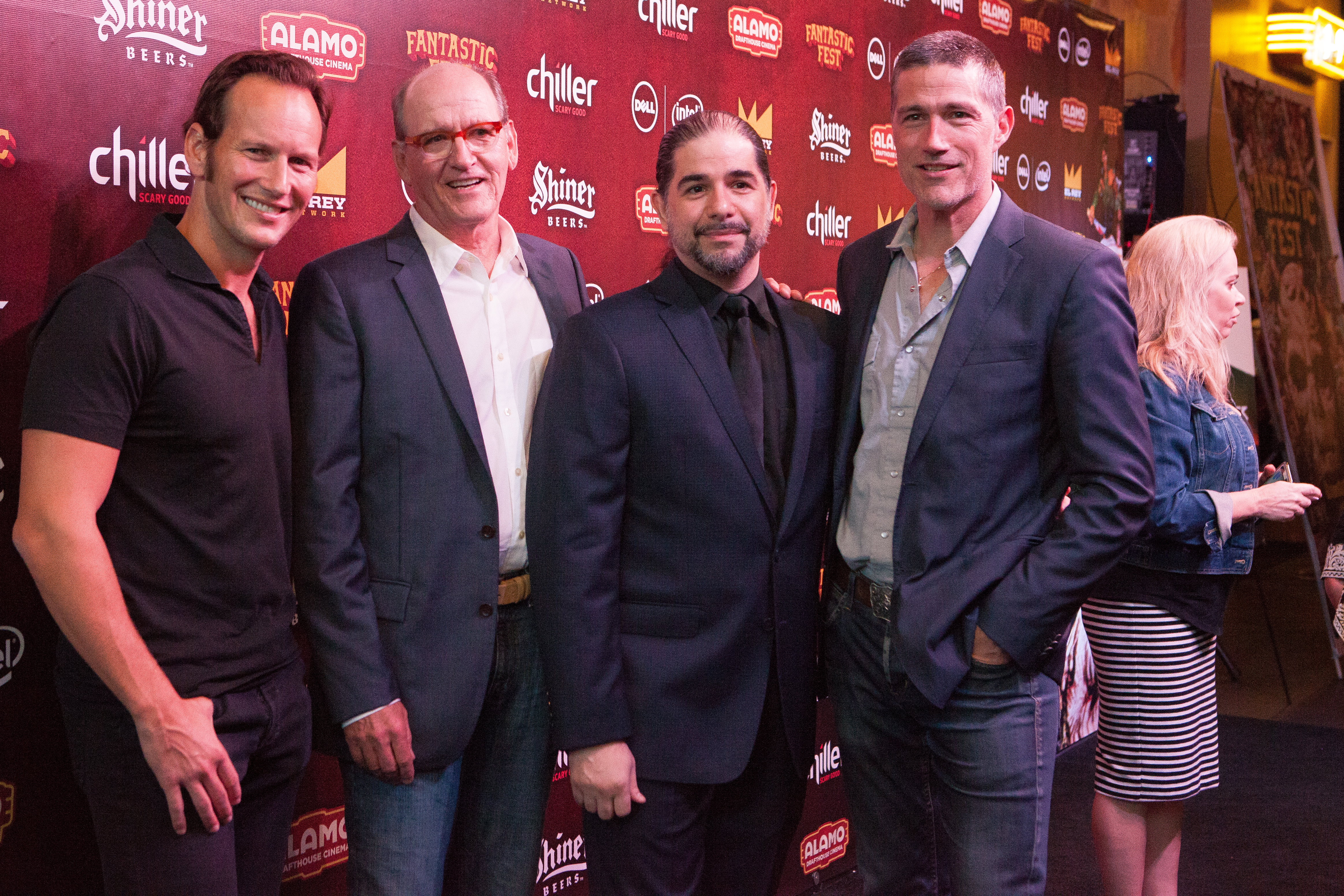 Fantastic Fest Red Carpet Bone Tomahawk-2092.jpg